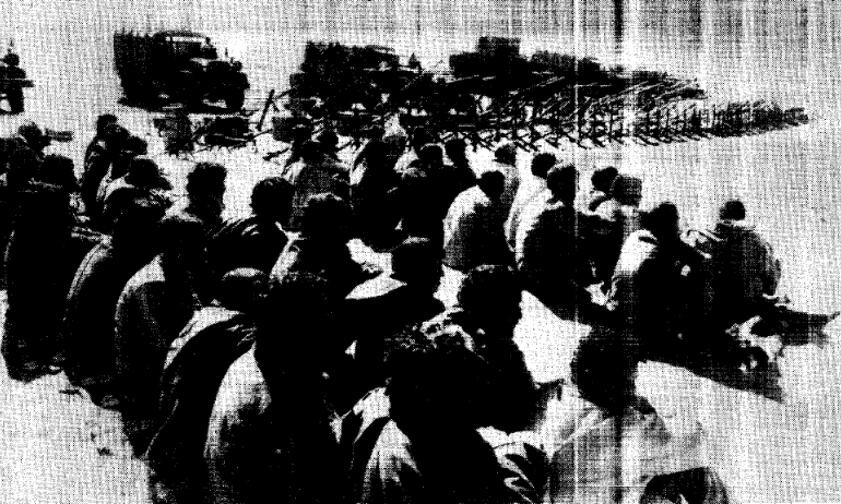 Moroccan soldiers and equipment captured during raid on Tantan, Morocco. See Bataille de Tan-Tan